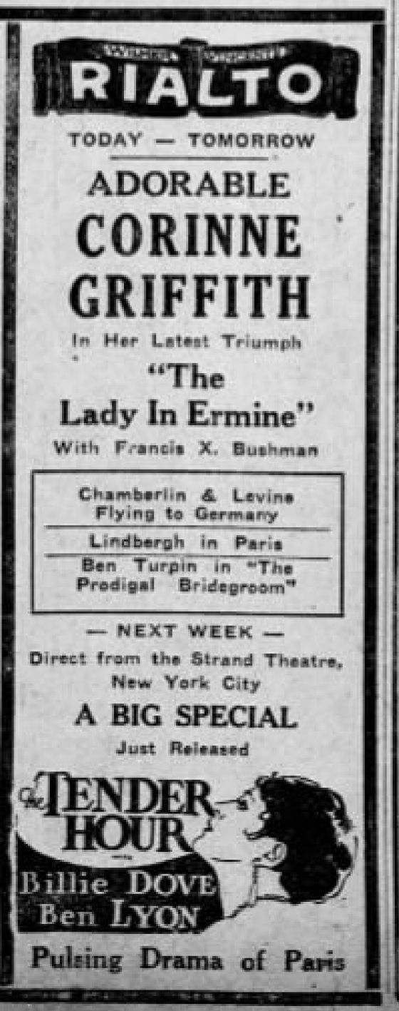 Rialto Theatre advertisement for the American romantic drama films The Lady in Ermine (1927) and The Tender Hour (1927) - 10 Jul. 1927 Morning Call, Allentown PA